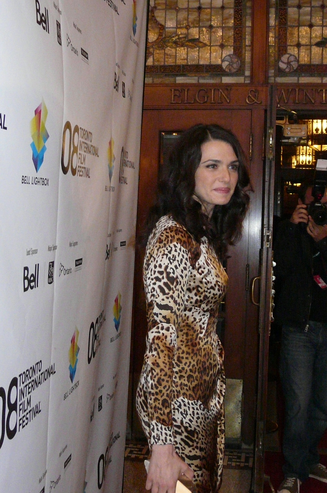 Rachel Weisz posing for some photos infront of the elgin theater for the TIFF '08 premiere of the Wrestler Check out even more great Tiff Photos and Videos at